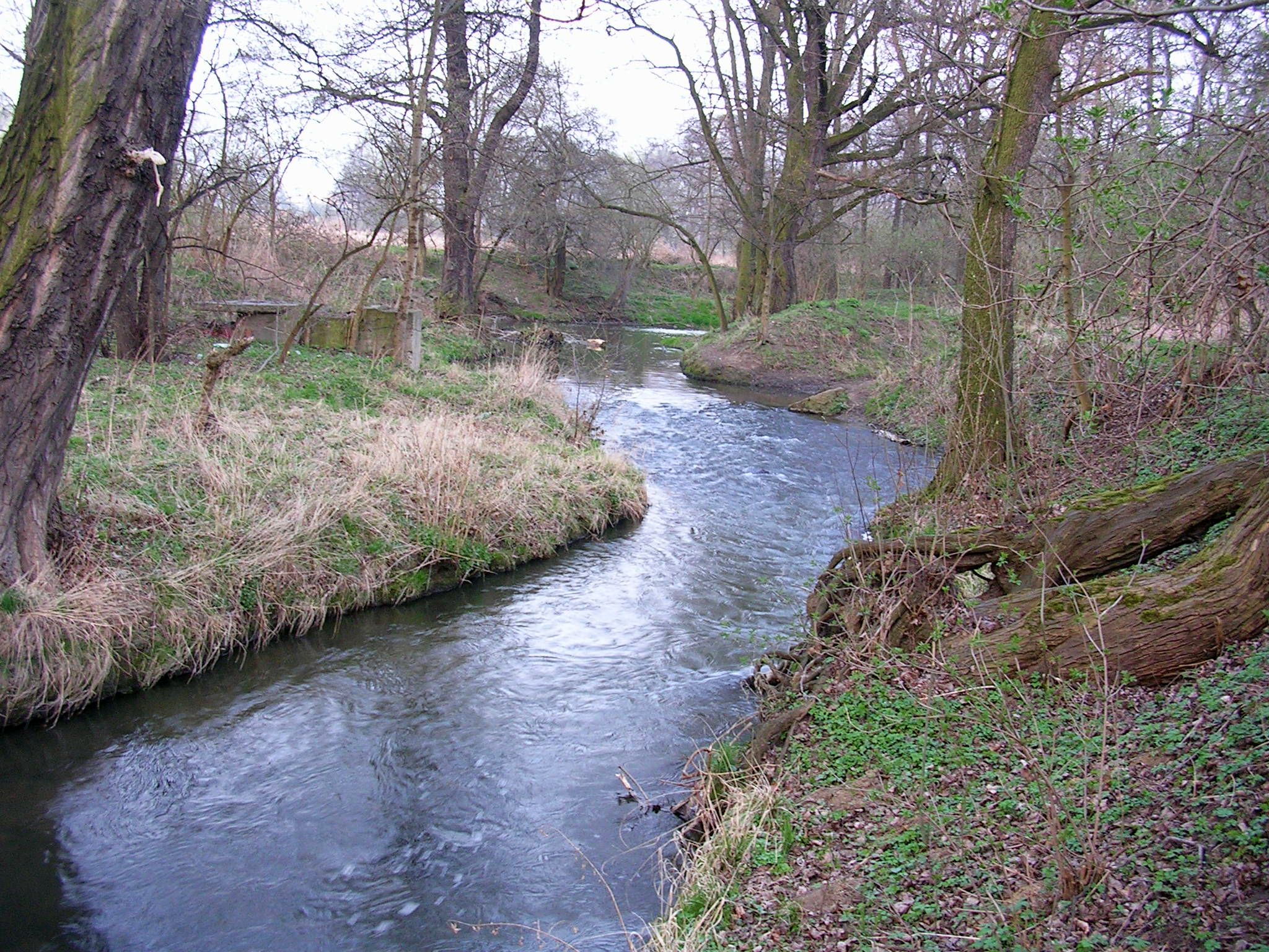 Záběhlice and Hostivař, Prague, the Czech Republic.